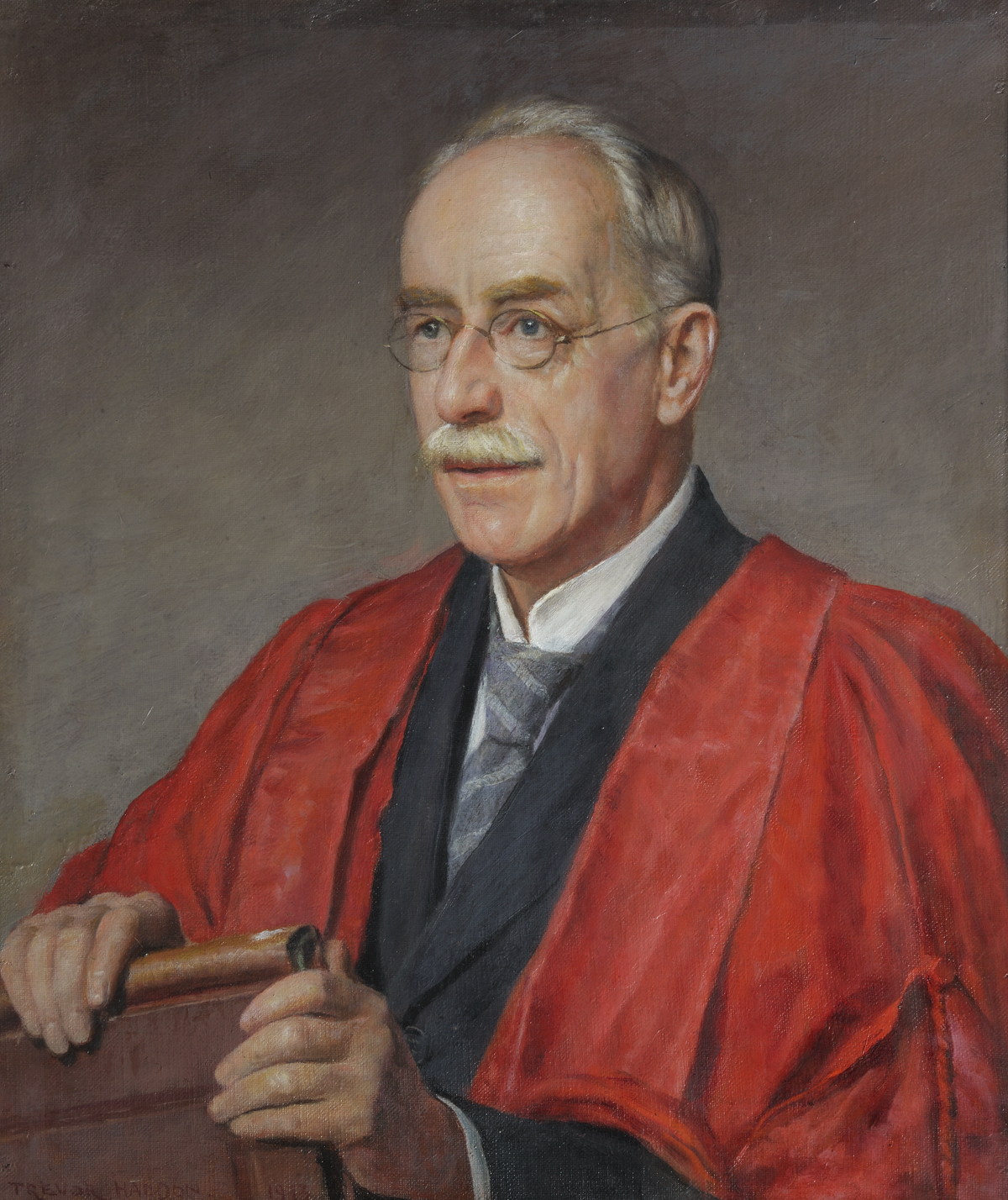 Arthur Bernard Cook (1868-1952), Classicist, Fellow (1893–1952)